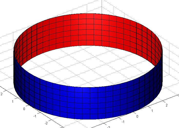 Cylinder. Internal color red, external blue. Comparable with a Mobius strip